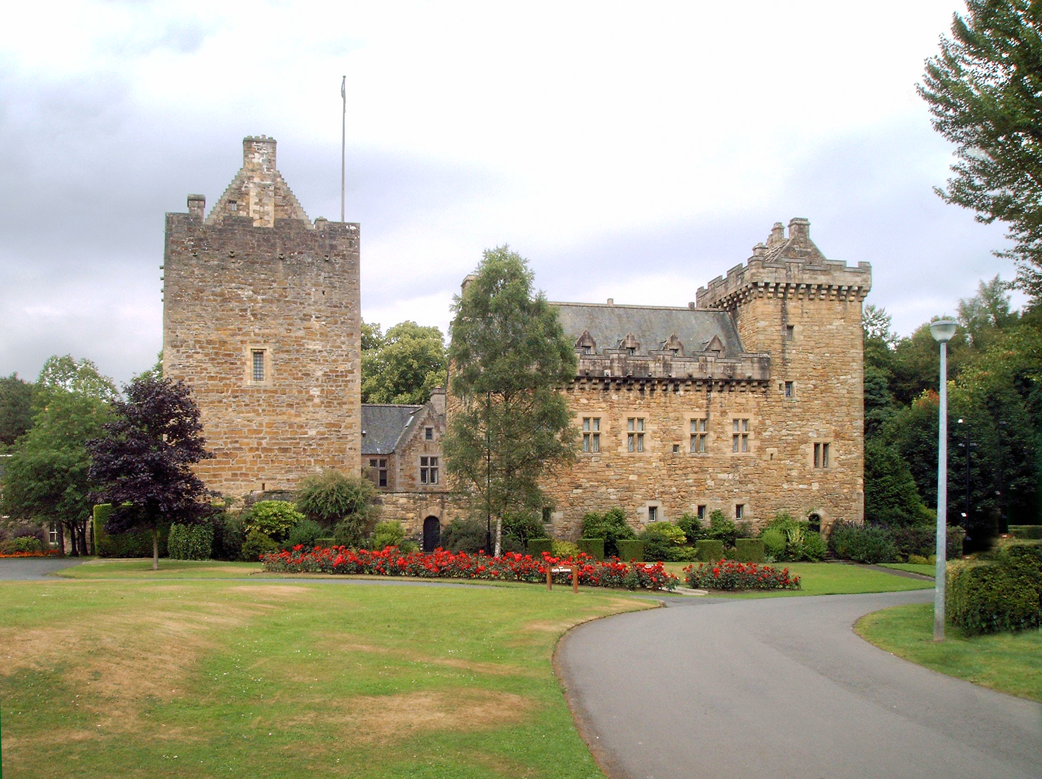 A picture of Dean Castle, kilmarnock.